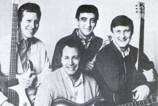 Trade ad for The Ventures's album "Super Psychedelics".To better adapt it to his respective Wikipedia article, the ad was cropped and cleaned in a graphics editing program. The original can be viewed at the source below.